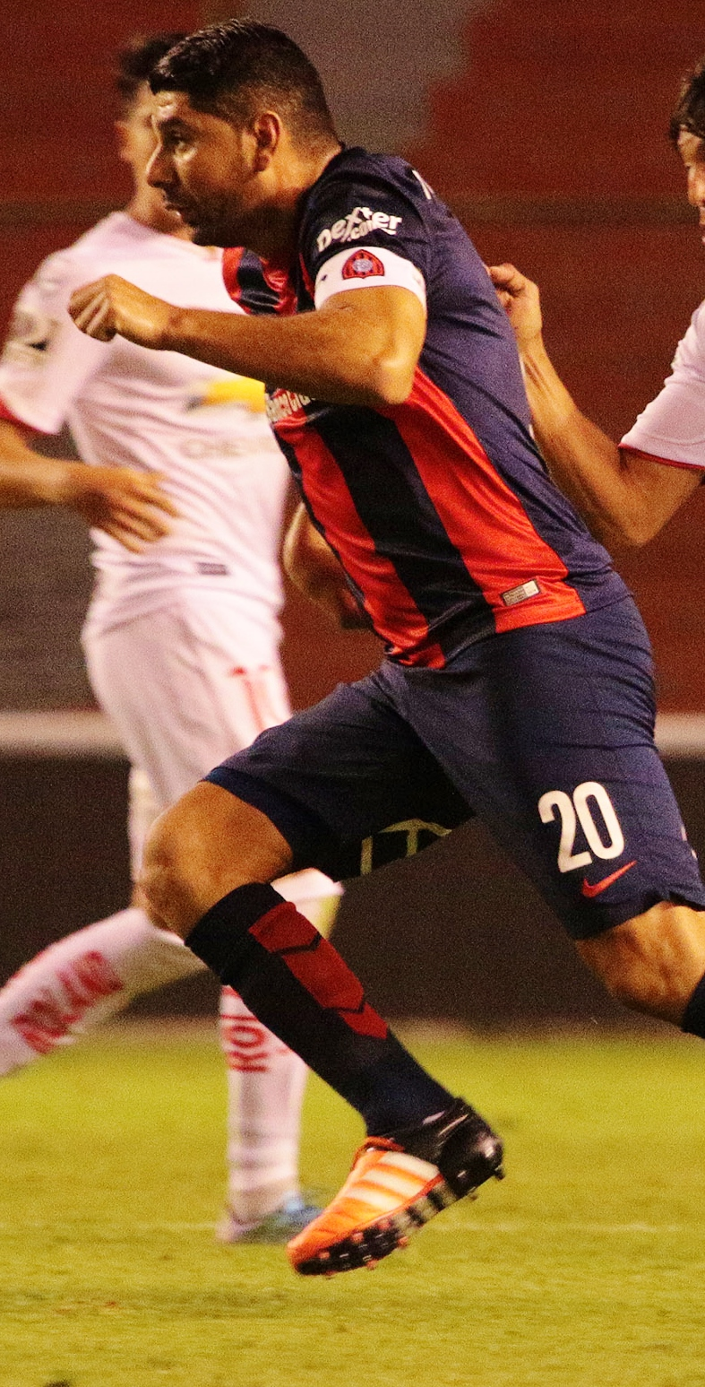 Néstor Ortigoza